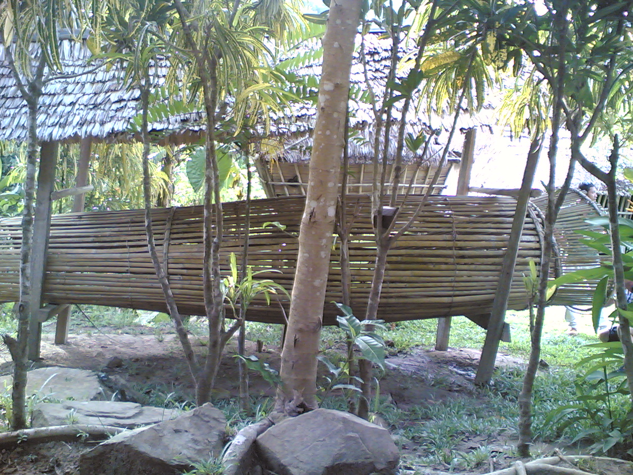 This is a giant-sized bubu ikan (fish trap) made of bamboo by the Rungus people in Kudat, Sabah in Borneo. I inquired as to its purpose, and the tribesman guiding us replied that it is not actually for catching fish, but used symbolically when a couple is caught fornicating, they are placed inside this bubu ikan and thrown into the ocean, presumably to die. Asked if it was considered a death sentence, the guide replied that it should be considered "punishment" rather than "execution".